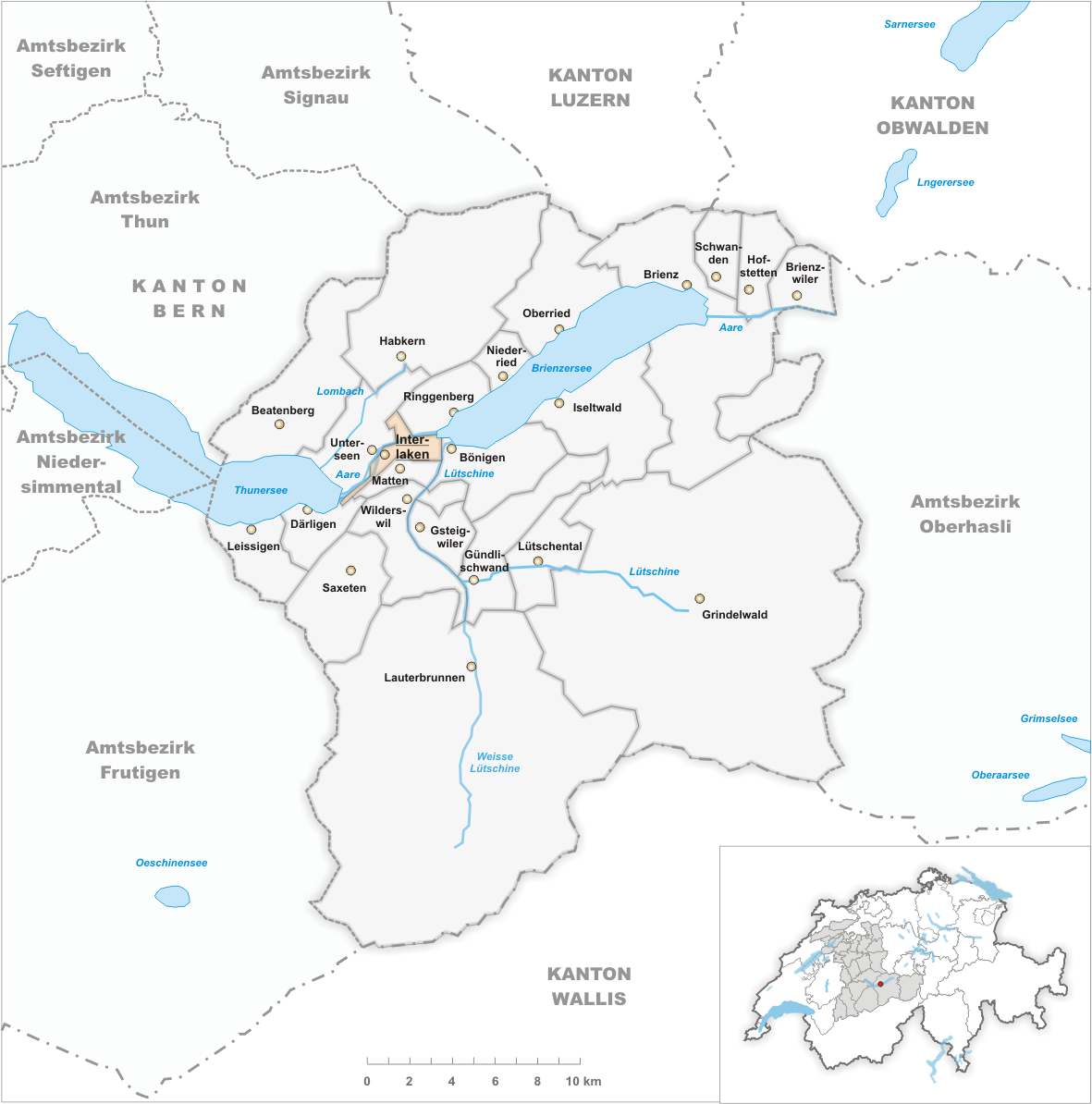 Municipality Interlaken